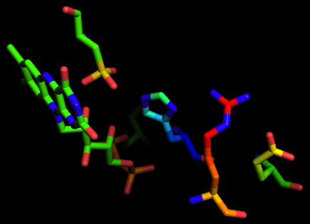 Four residues essential for active site functionality in NADH Peroxidase. Adapted from RCSB Protein Bank PDB 2NPX.